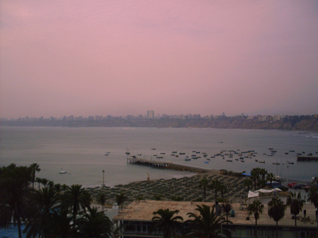 This picture was taken by me on april 10, 2006 with a Vivitar camera